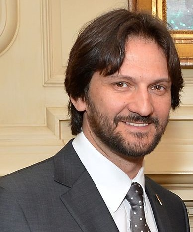 U.S. Secretary of State John Kerry and Deputy Prime Minister of Slovakia Robert Kalinak poses for a photo after the Secretary presented Deputy Prime Minister Kalinak a certificate of appreciation in recognition of Slovakia’s sustained record of excellence in advancing international cooperation in the global fight against terrorism, at the U.S. Department of State in Washington, D.C., on March 9, 2015.